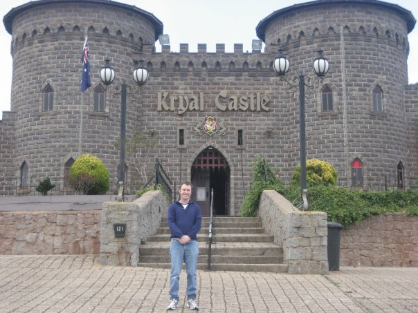 Me